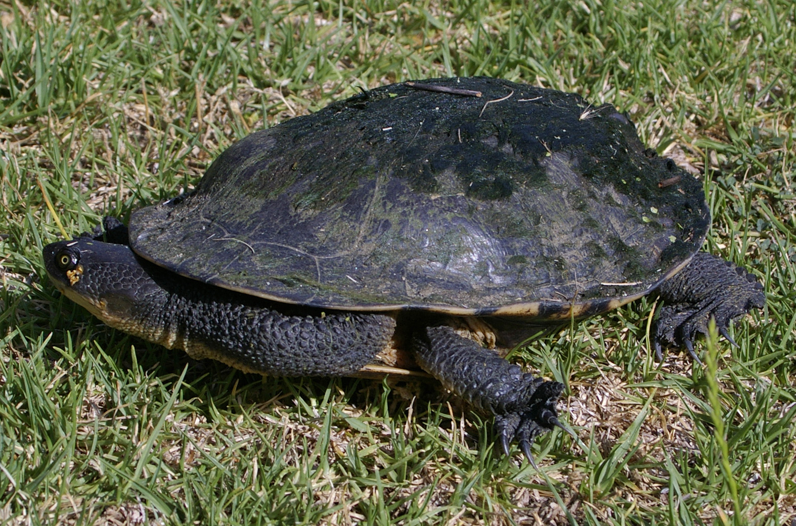 Common snakeneck turtle (Chelodina longicollis) with algae on the shell which it can use to camouflage when it's in the water. Photographed in Wagga Wagga, New South Wales near the Wollundry Lagoon.